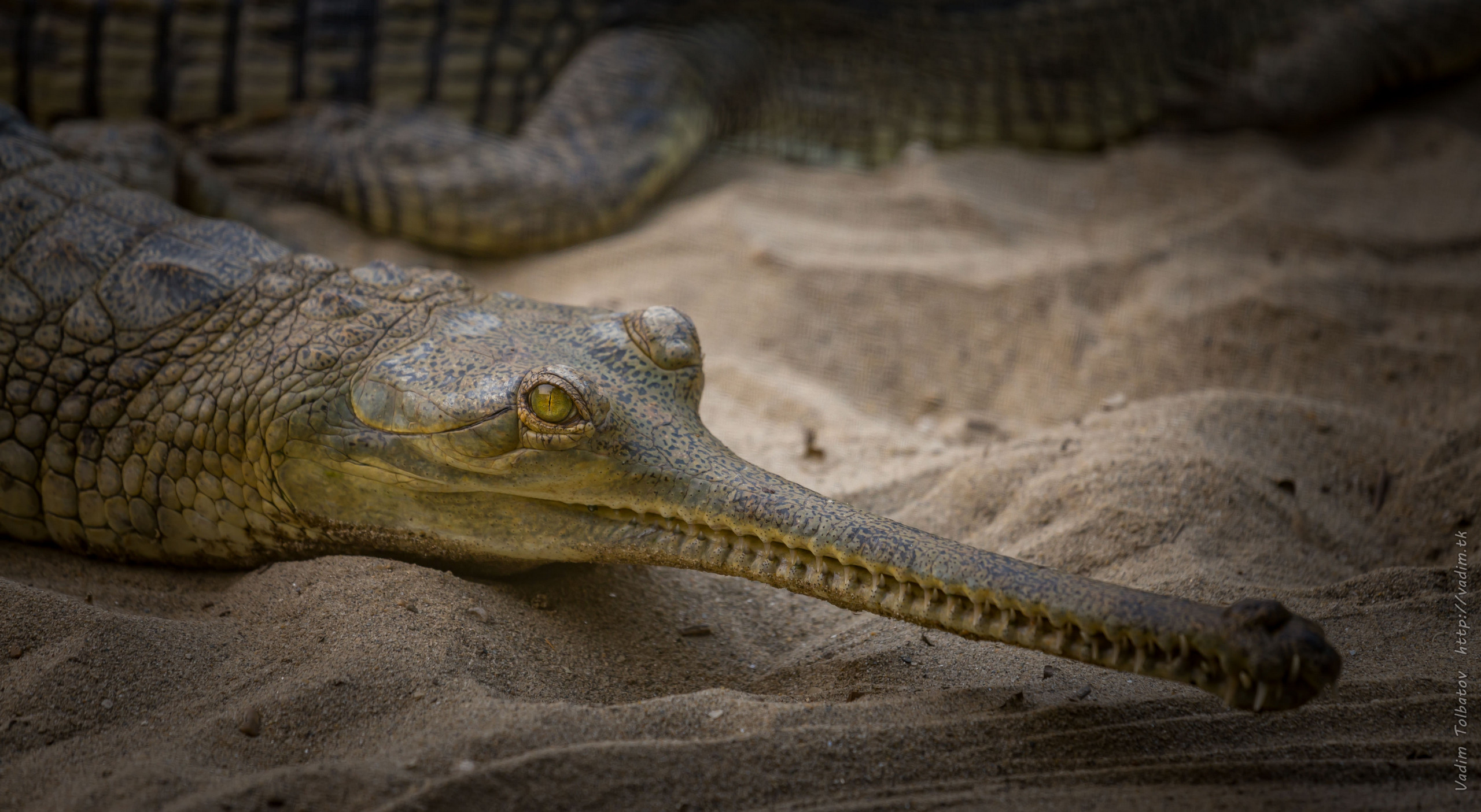 Crocodile Gharial's close-up portrait